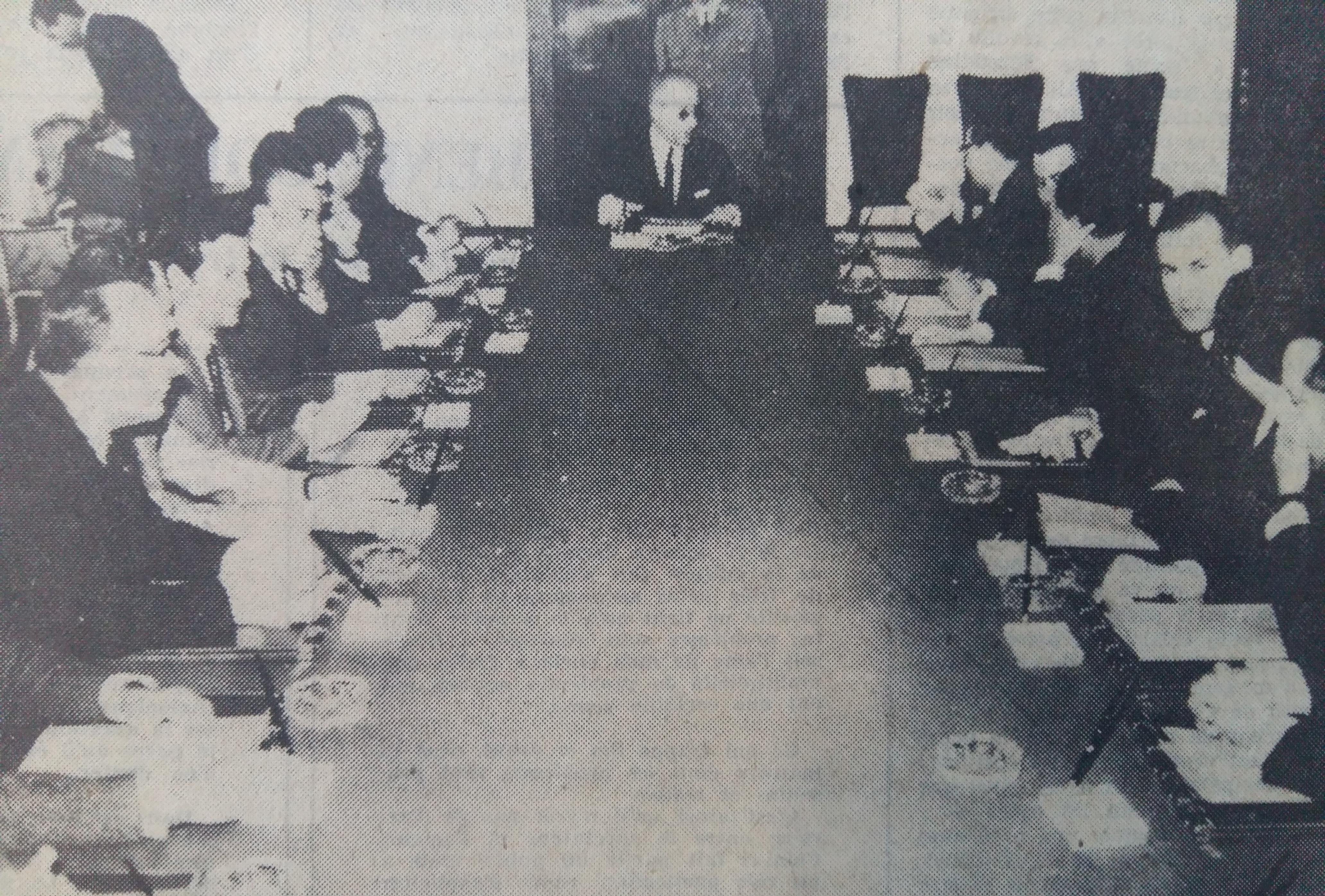 Installation du gouvernement Nouira au Palais du Gouvernement